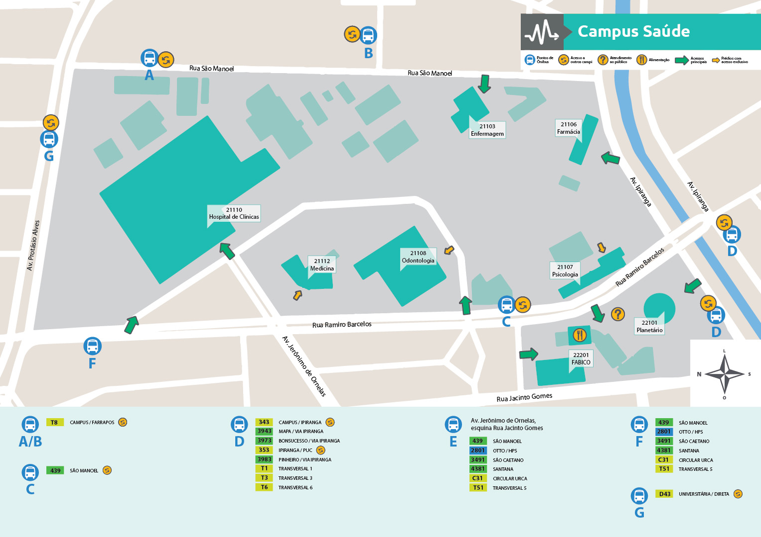 Mapa Campus Saúde